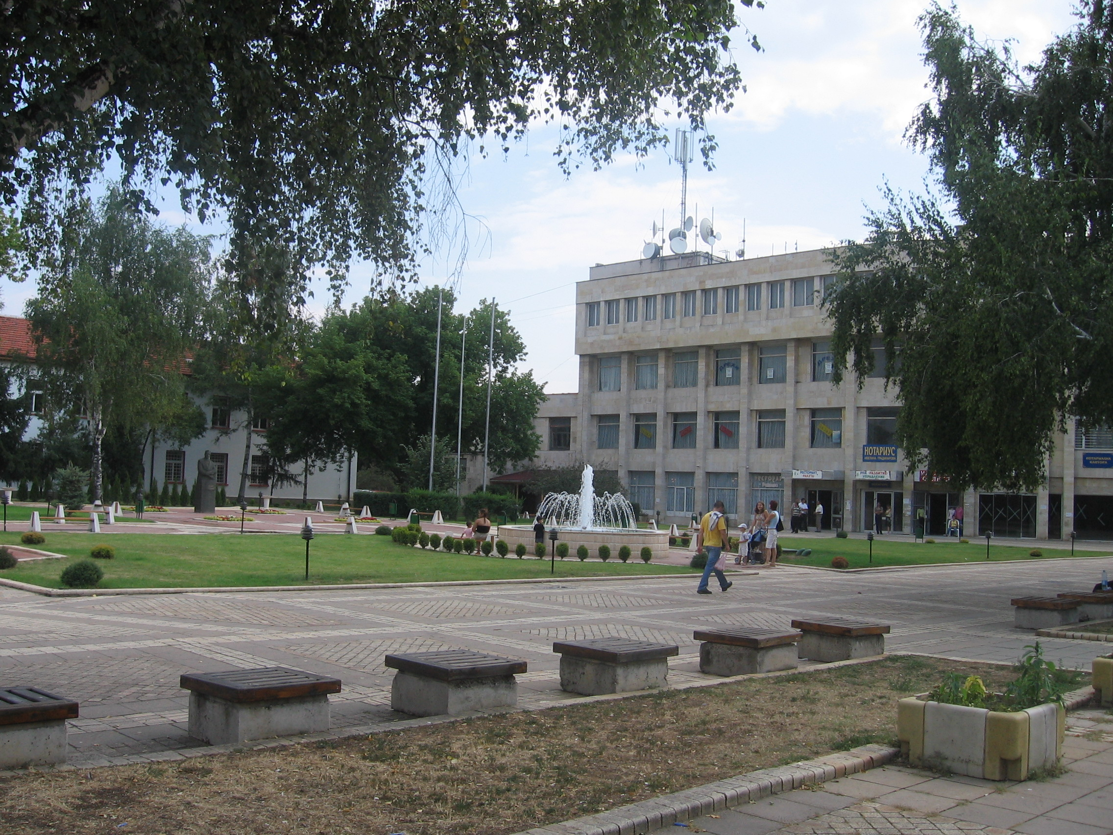 View towards square „Independence“ in Elin Pelin, Bulgaria.